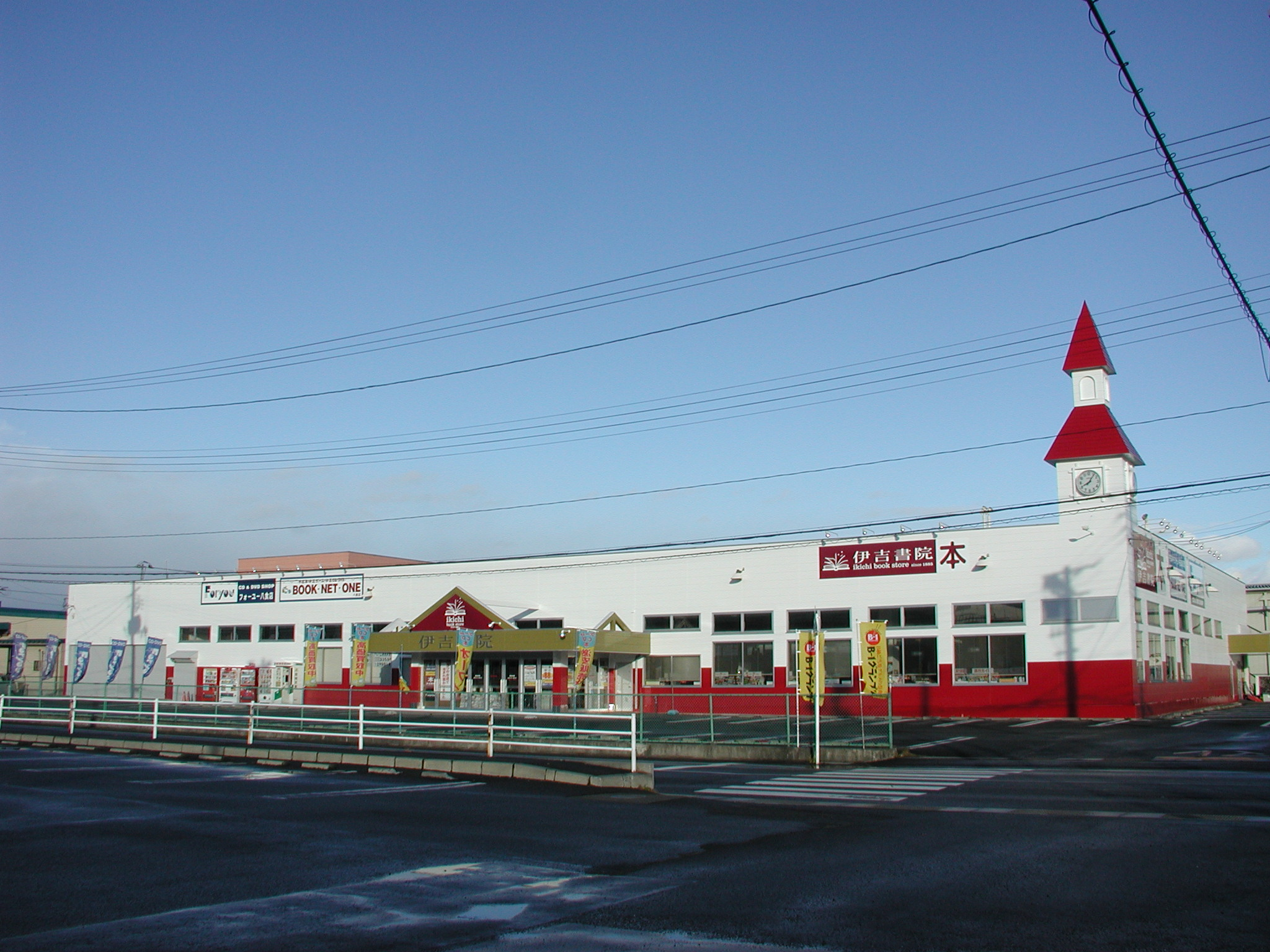 Ikichi Book Store Nishi Shop